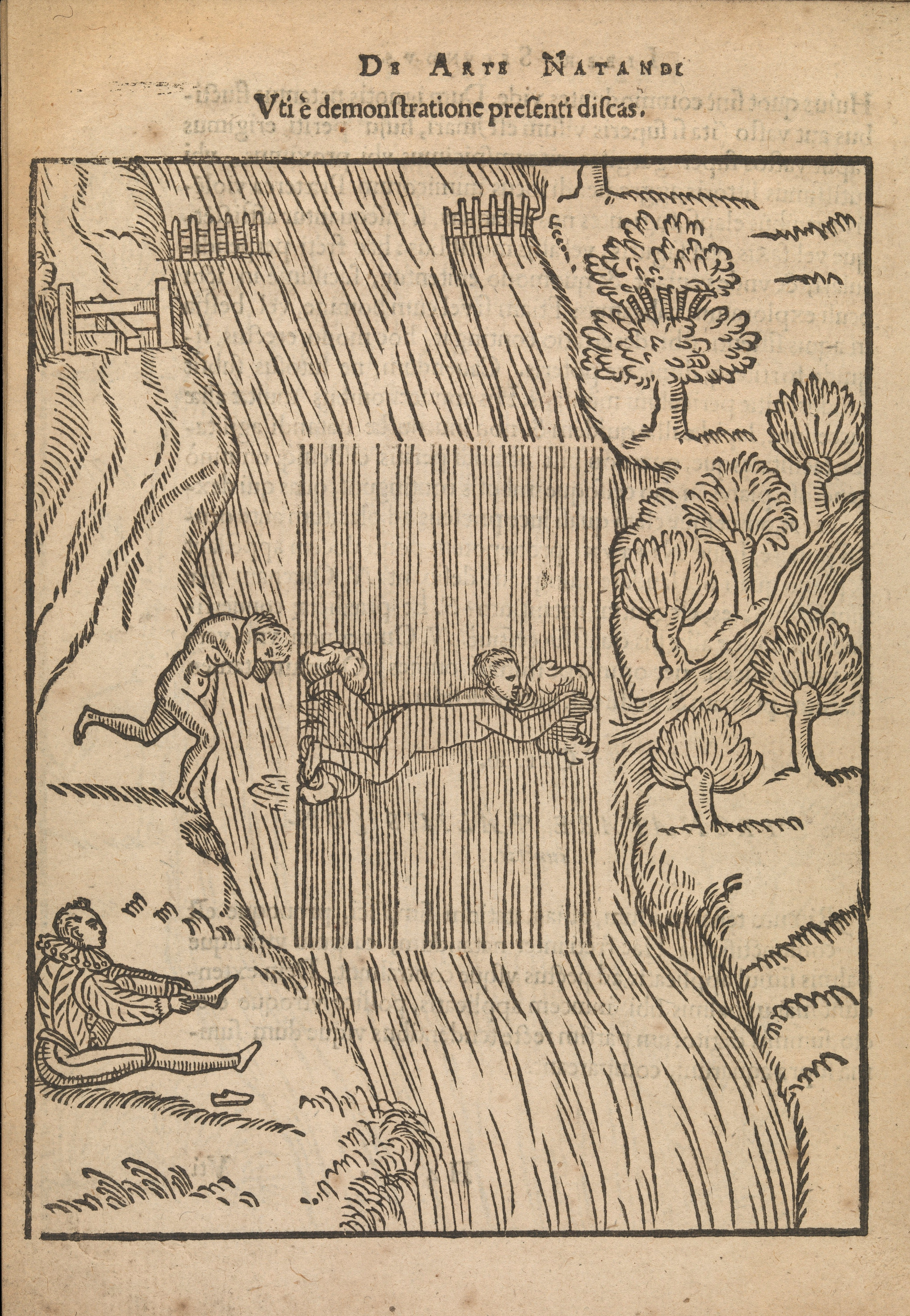 De arte natandi libri duo, quorum prior regulas ipsius artis, posterior vero praxin demonstrationemque continet. Swimming. Rare Books Keywords: Swimming